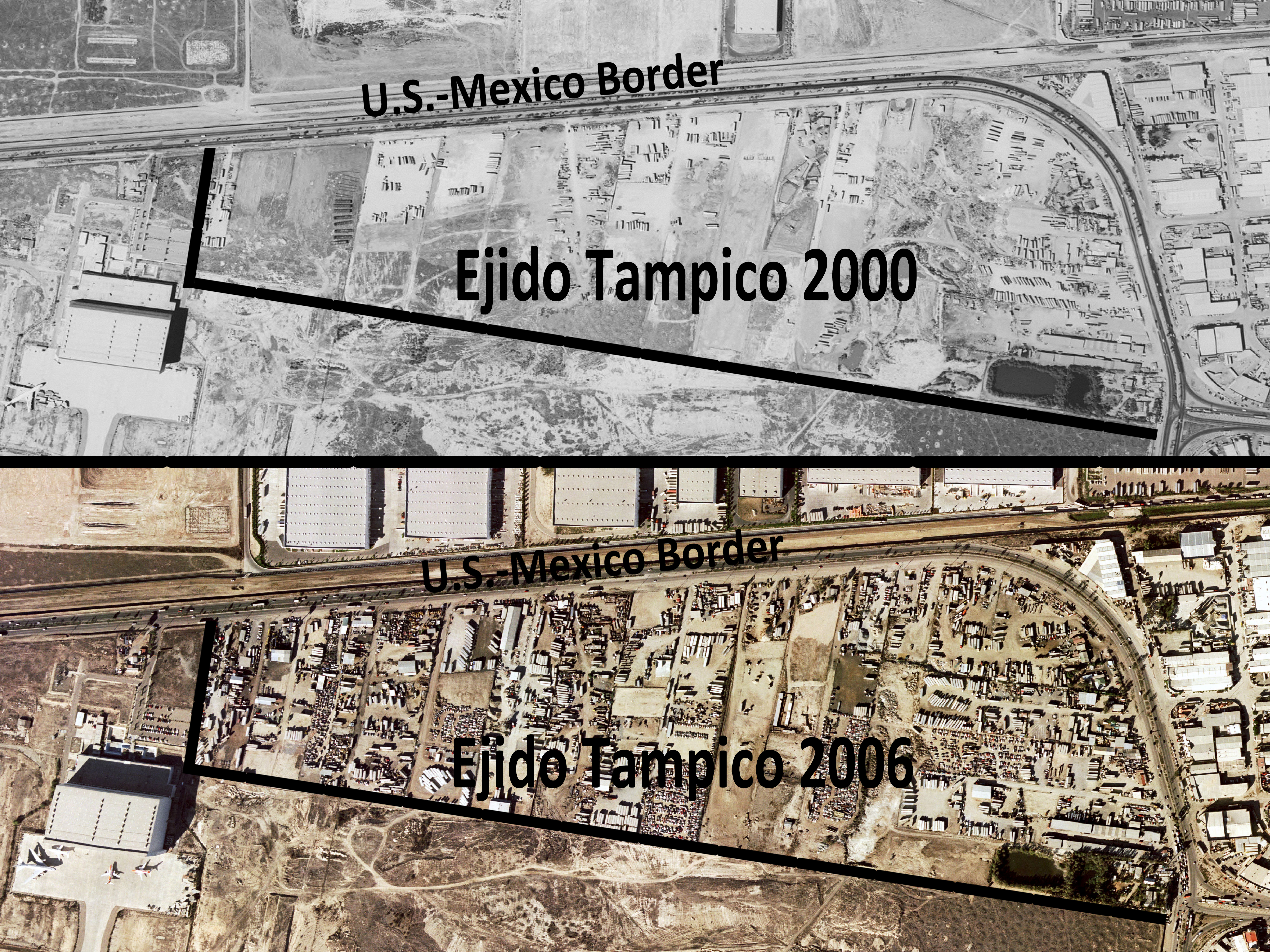 Shows the development of the Ejido Tampico at the Tijuana airport, Mexico between the year 2000 to 2006